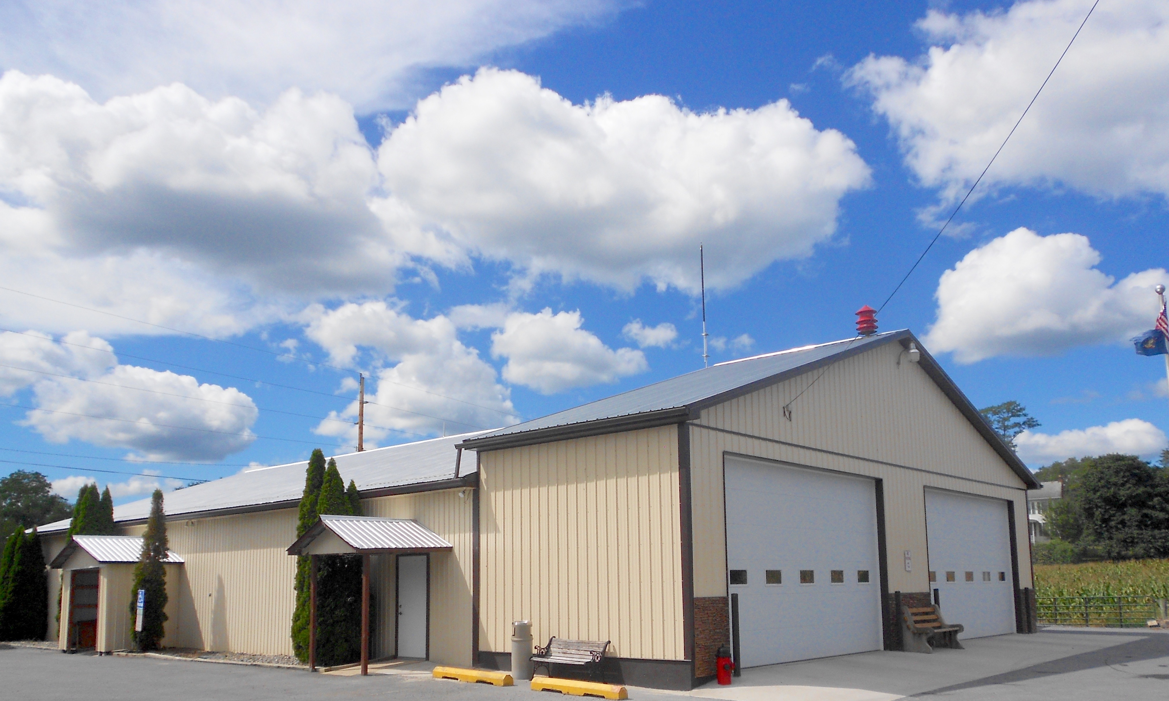 Stone Creek Valley Volunteer Fire Department Station 13 on Route 26 in Huntingdon County, Pennsylvania